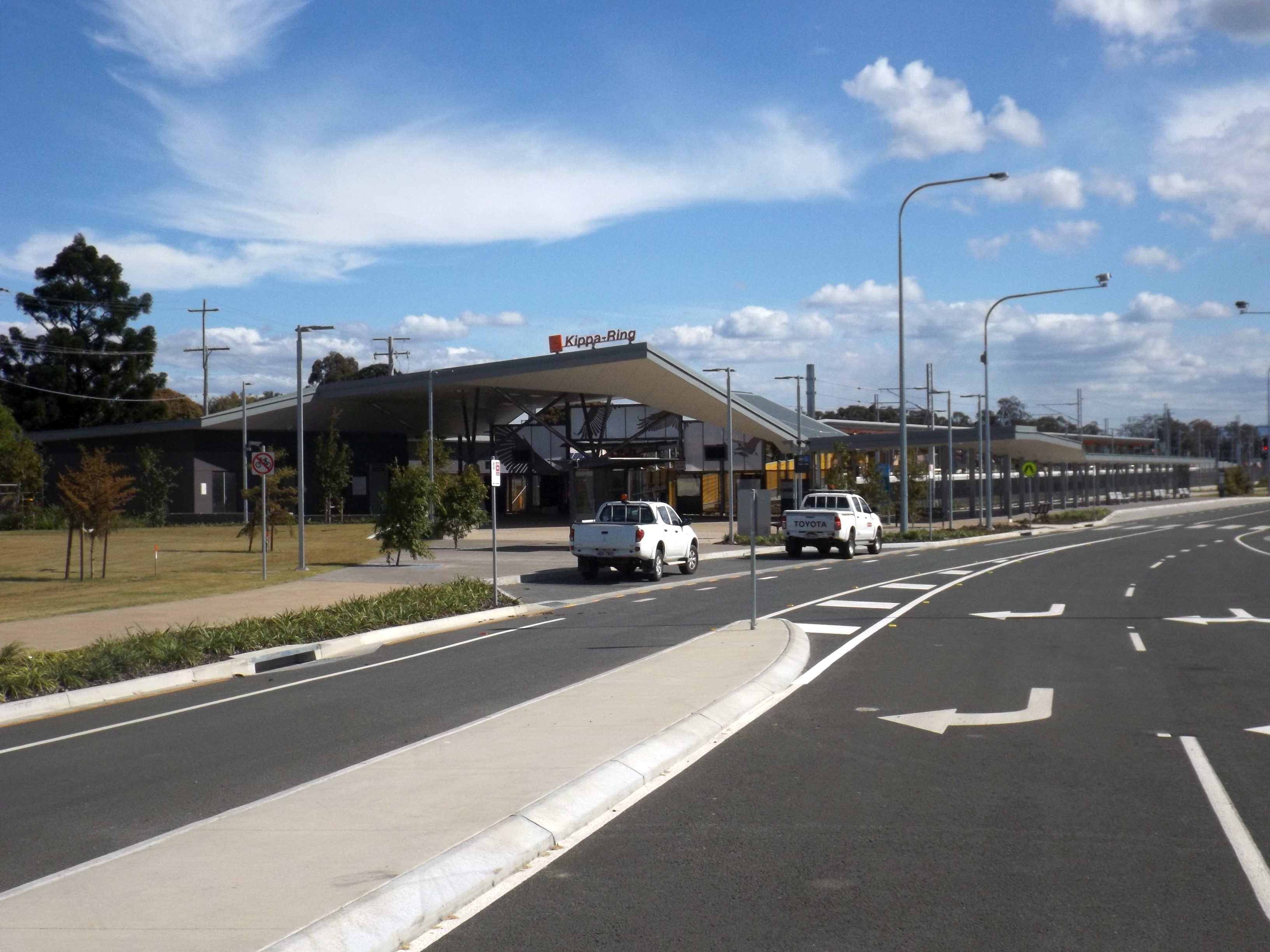 Photo of the completed but unopened Kippa Ring railway station at Kippa Ring, Moreton Bay Region, Queensland, Australia.